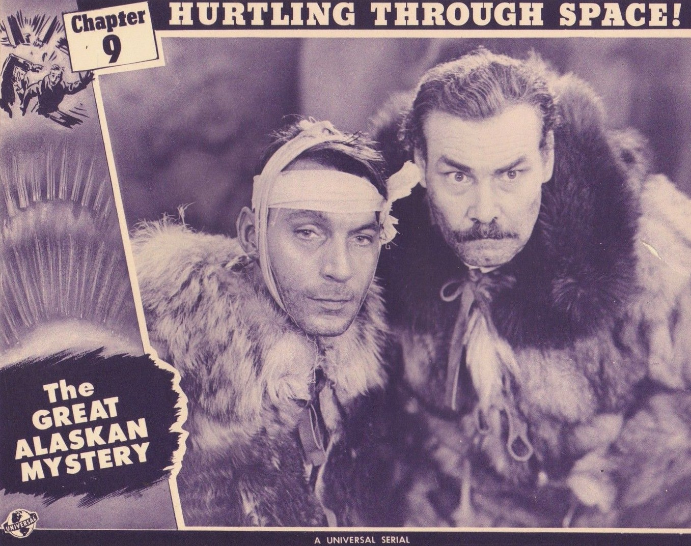 Martin Kosleck (left) and Harry Cording in The Great Alaskan Mystery (1944) - lobby card (cropped)